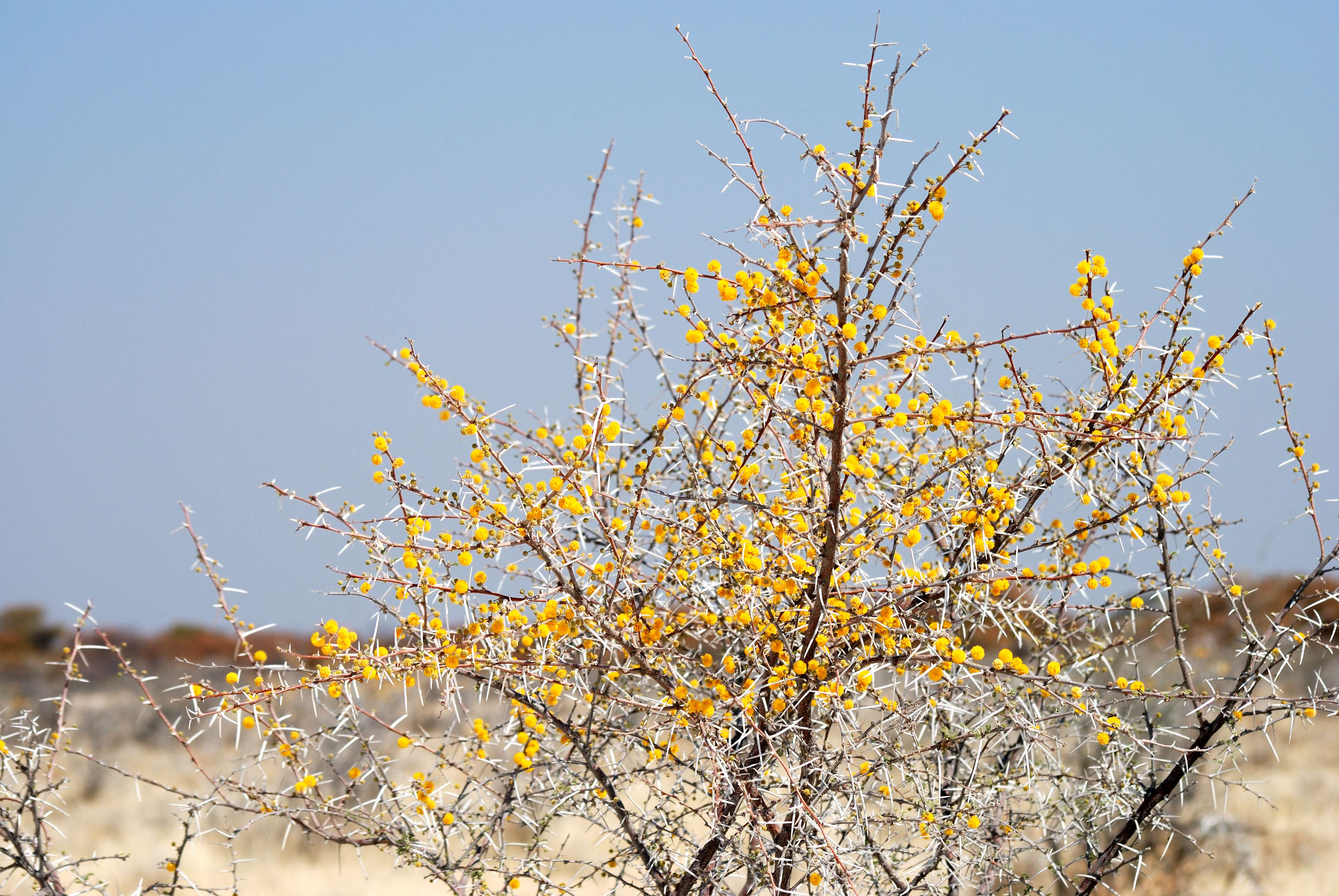 Sweet thorn in Etosha National Park. The slender white spines are prominent on young trees